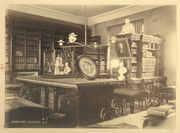 University of Sydney Library while housed in the present Senate Room (pre-1908)